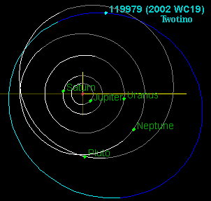 The orbit of twotino (119979) 2002 WC19 compared to Pluto and Neptune.